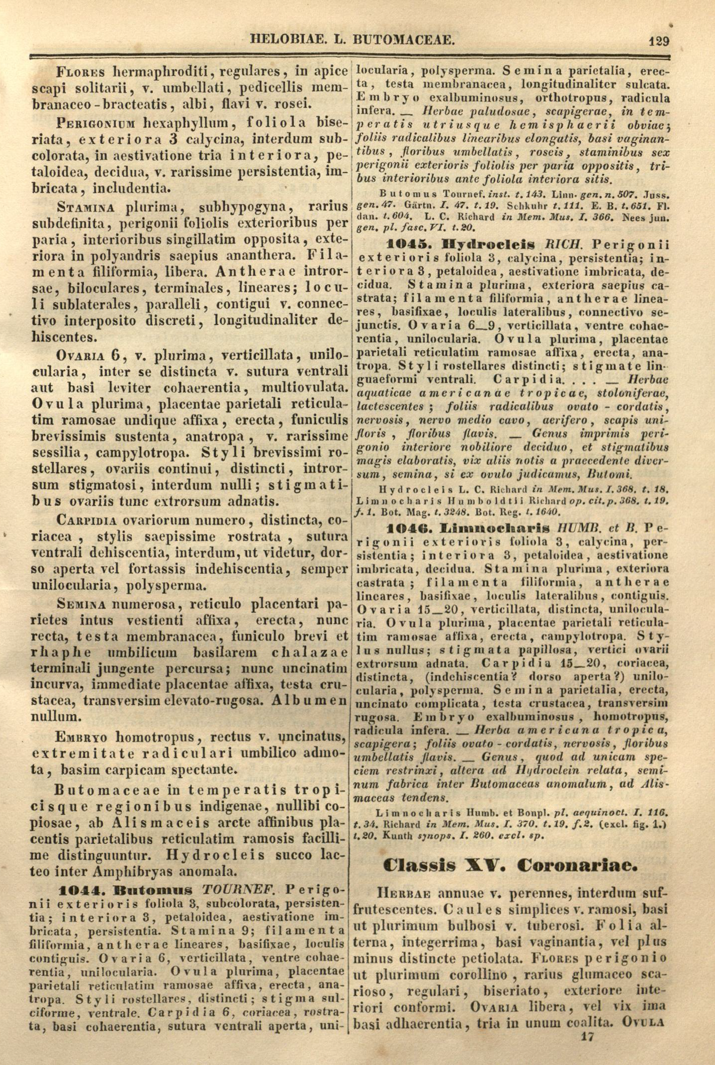 Endlicher's description of Coronariae